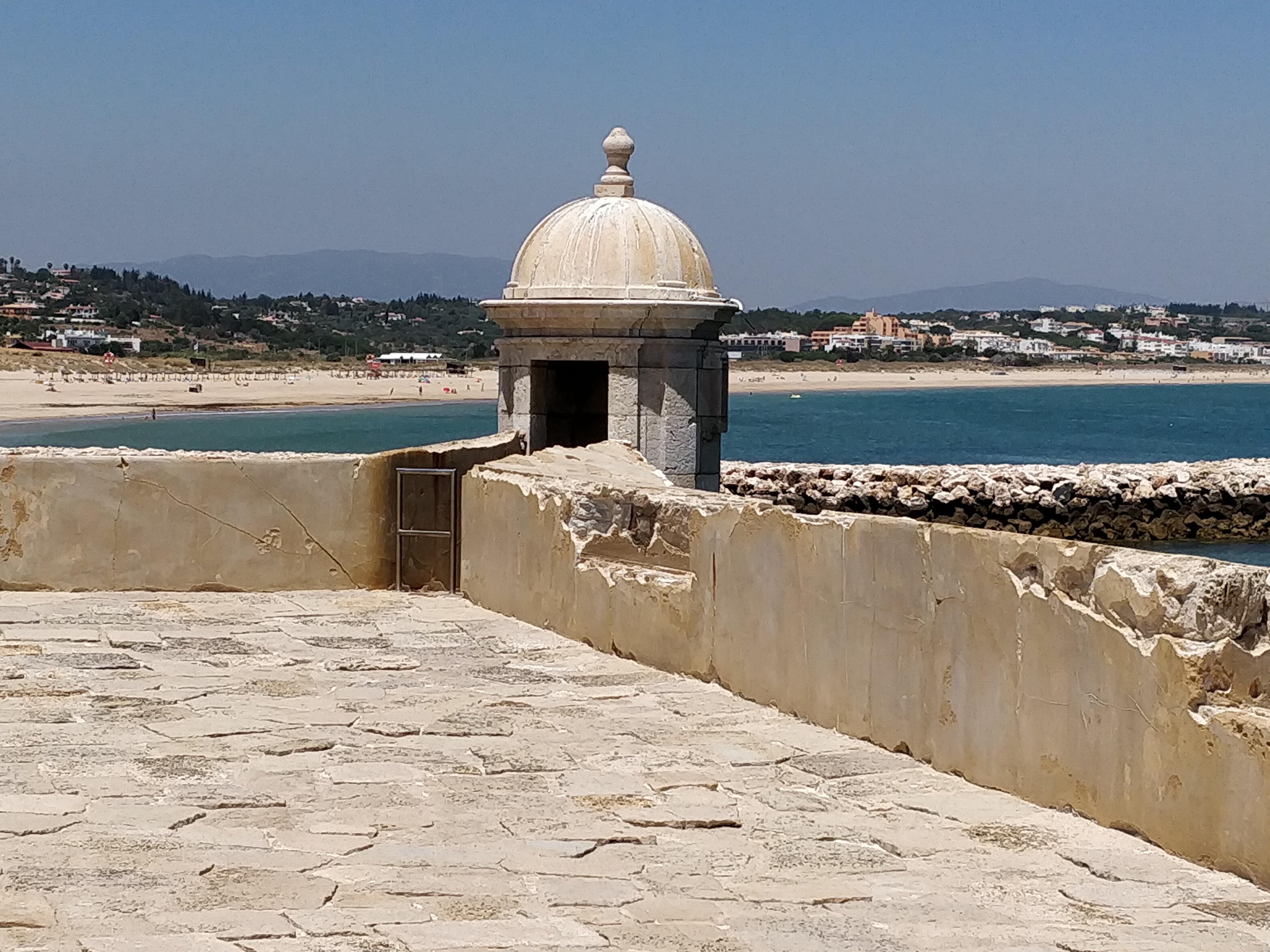 Interior of the Fort of Ponta da Bandeira, Lagos, Portugal